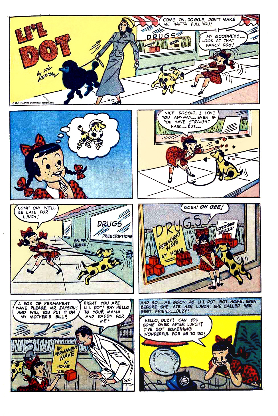 Vic Herman's Li'l Dot, the 1940s predecessor to the more familiar Little Dot published by Harvey Comics. According to Don Markstein, the character was overhauled to conform to the company's new house style after Harvey licensed Little Audrey from Famous Studios. This version of the character is in the public domain due to lapsed copyright. Short "gag" strip running in the back pages of Little Max Comics, February 1950.